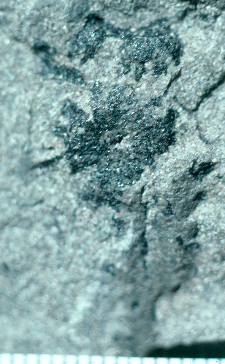 Ovulate structure Peltaspermum townrovii from latest Permian Coal Cliff Sandstone in Oakdale Colliery, NSW (specimen UNEF13365A from locality UNEL1370)